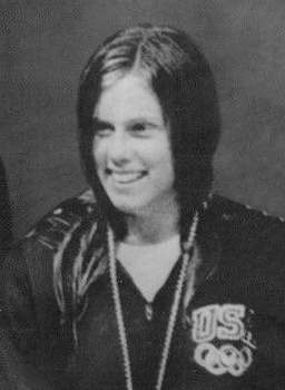 LG17 '72 Wire Photo DEARDRUFF NEILSON BELOTE CARR Olympic Record Gold Medal Swim